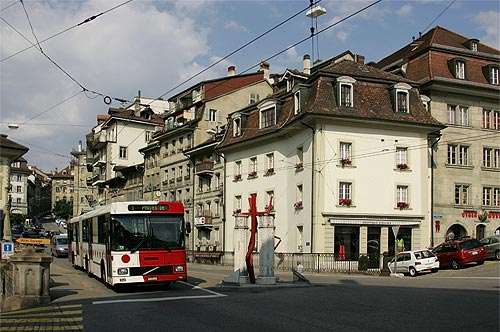 Place de l'Hôtel de Ville (City Hall Square), in Fribourg, Switzerland, with a trolleybus eastbound on Route des Alpes.